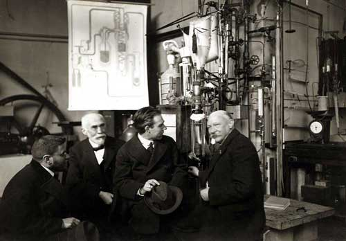 1919 in the Cryogenics Laboratory in Leiden. People on the picture from left to right: Paul Ehrenfest, Hendrik Lorentz, Niels Bohr, Heike Kamerlingh Onnes